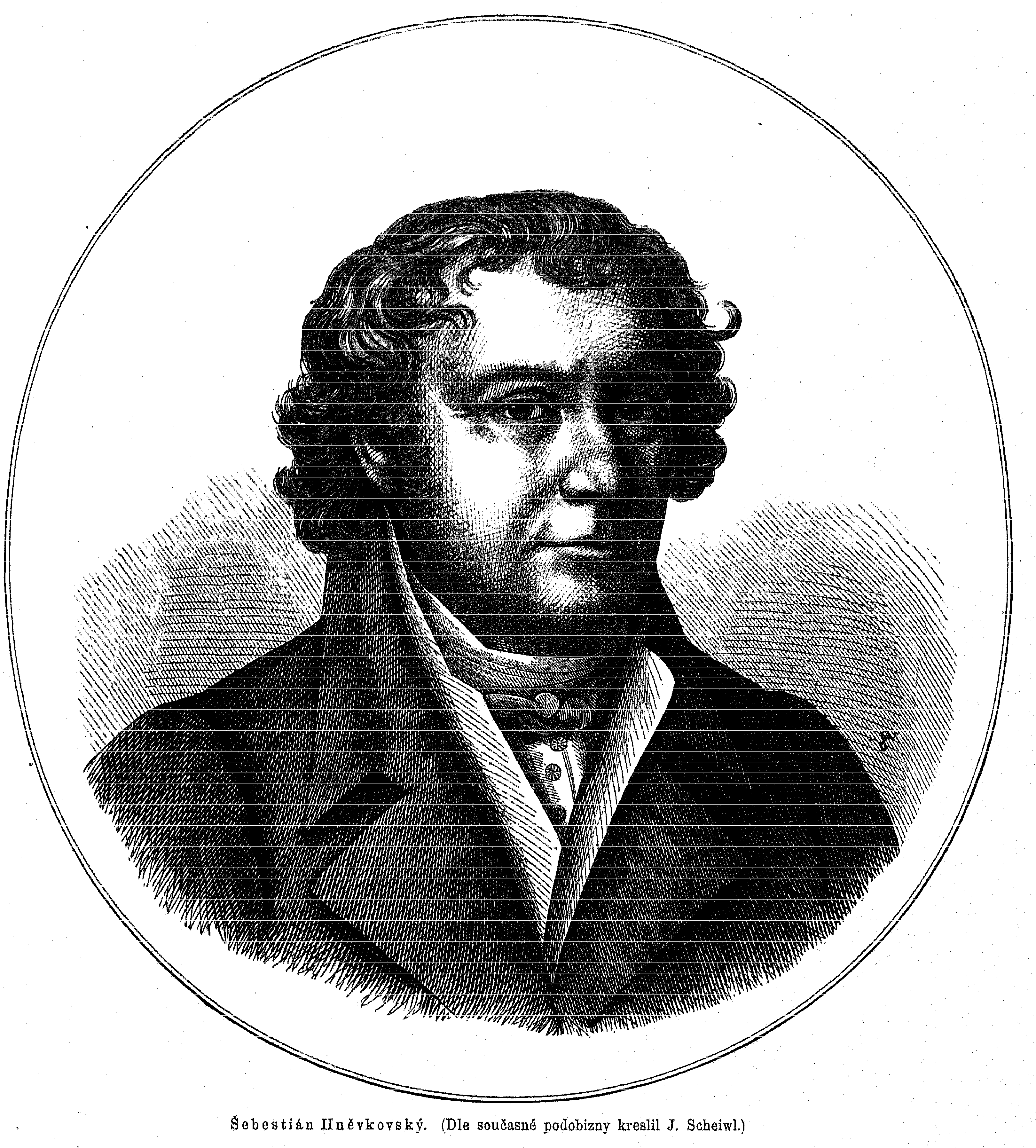 Portrait of Šebestián Hněvkovský (1770 - 1847), Czech poet from an early phase of national awakening.